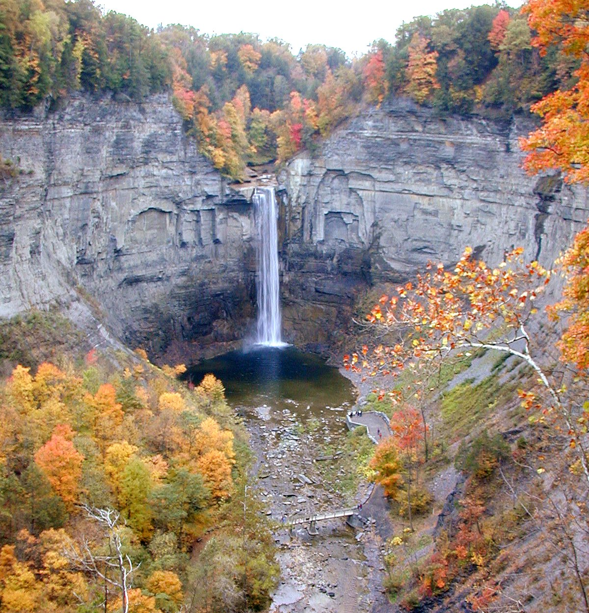 Taughannock Falls, taken in Fall, 2003. I am the author: Michael Hall.